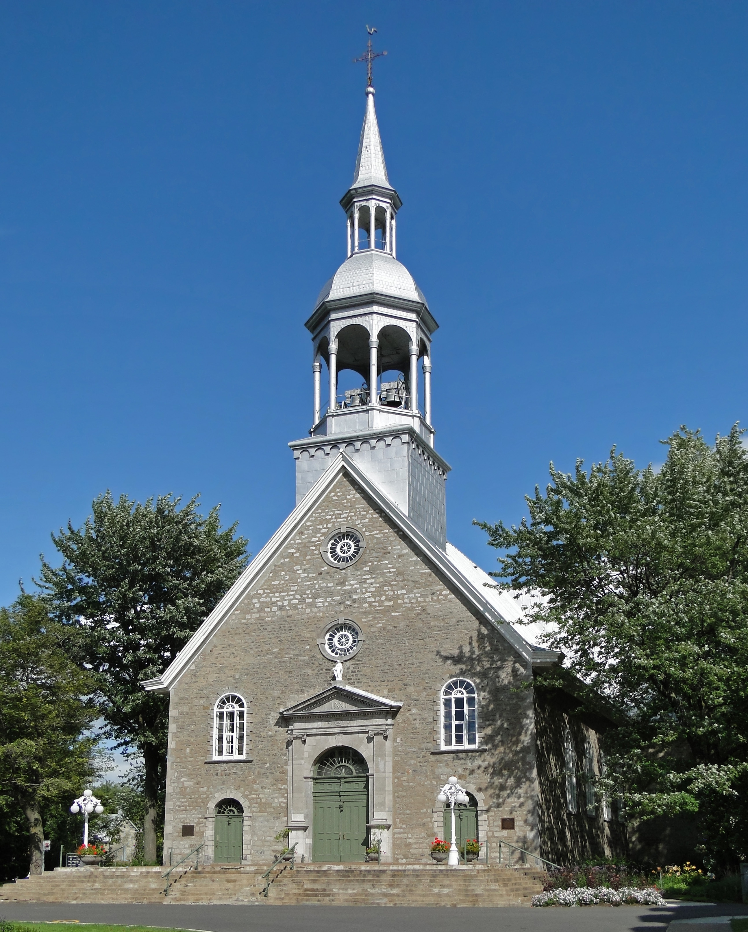 Sainte-Famille Church (1801), Boucherville, province of Quebec, Canada